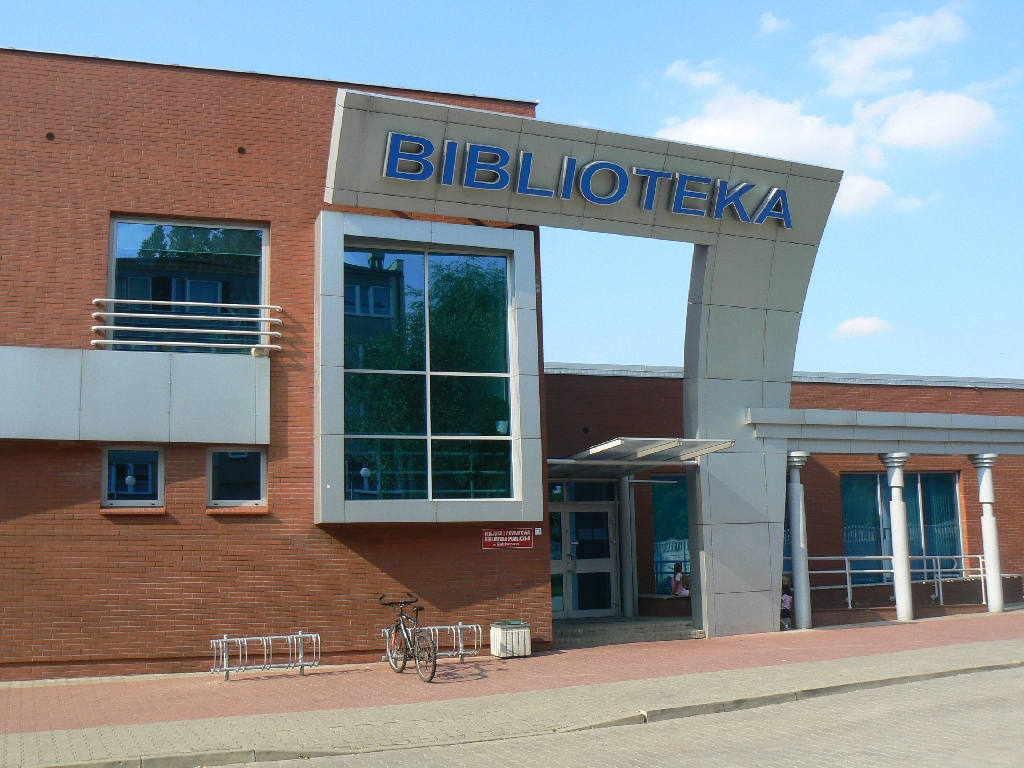 Library in Bełchatów, main building